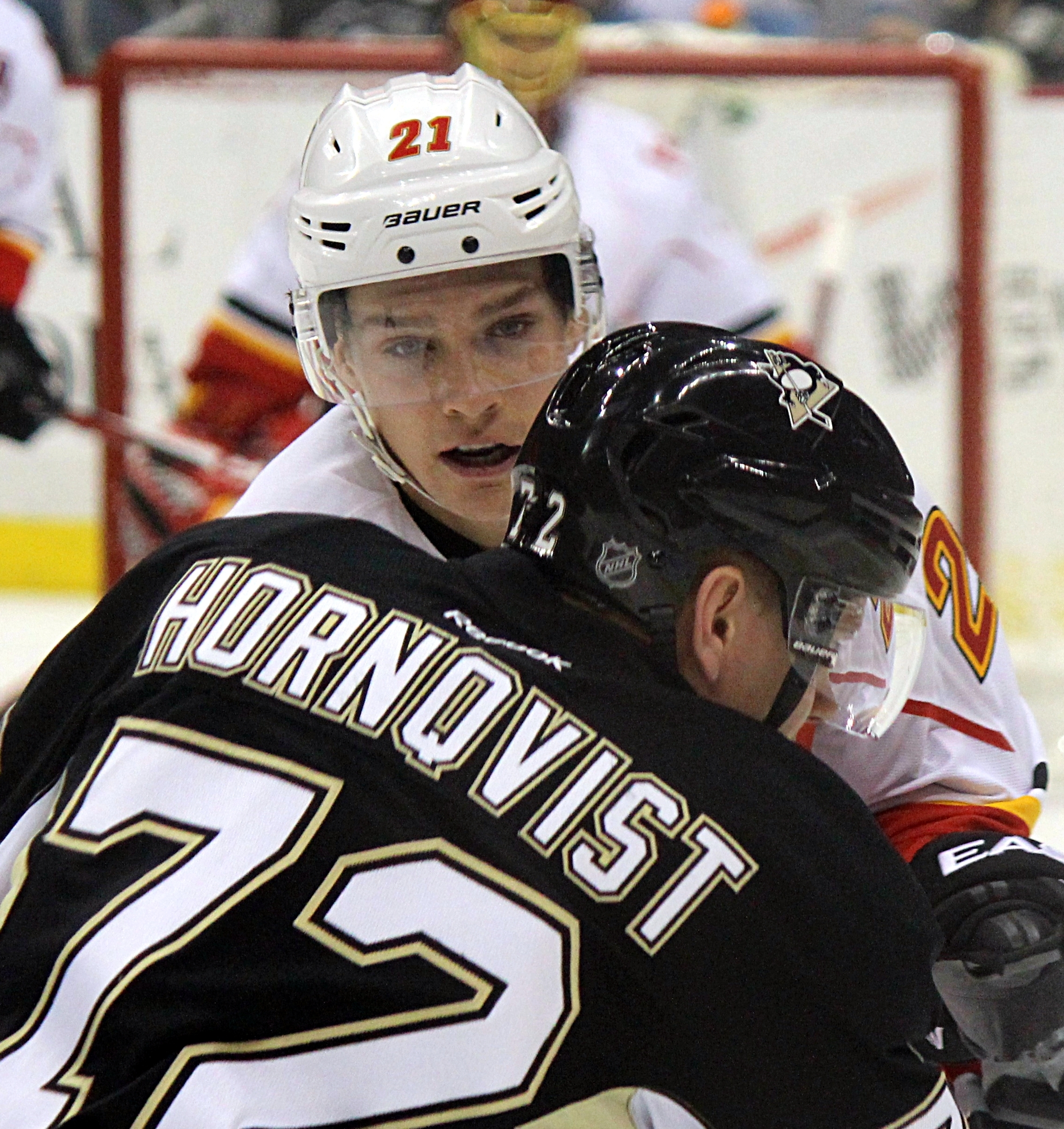 Calgary Flames forward Mason Raymond during a game against the Pittsburgh Penguins, December 12, 2014, at Consol Energy Center in Pittsburgh, PA.